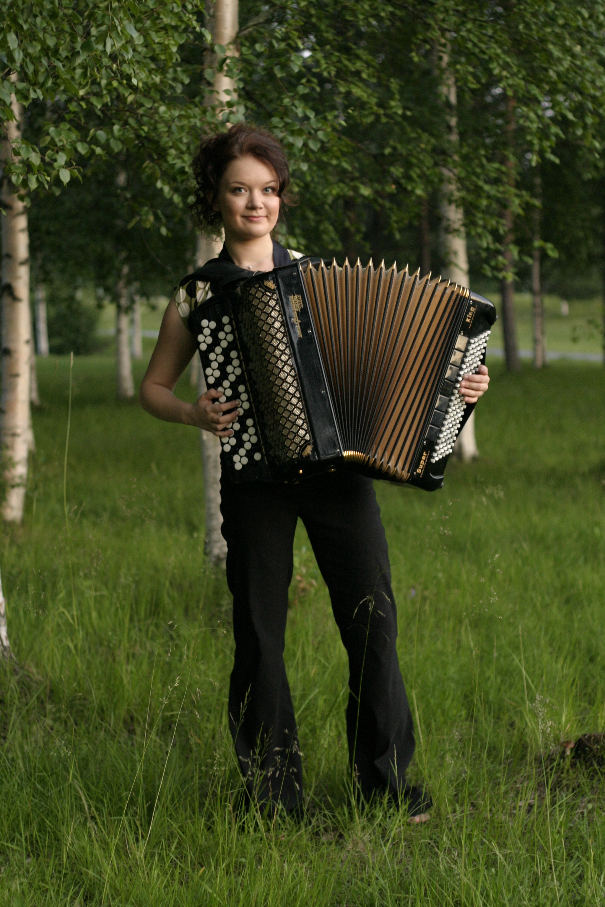 Henna-Maija Kuki in Vihreät Niityt music festival in the summer 2007.